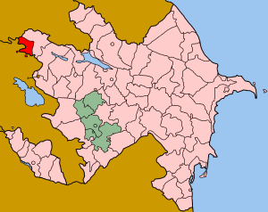 Map of Azerbaijan showing Qazakh (Qazax) rayon.